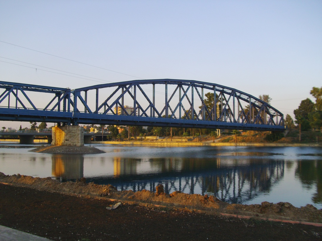 Close view of Demirköprü